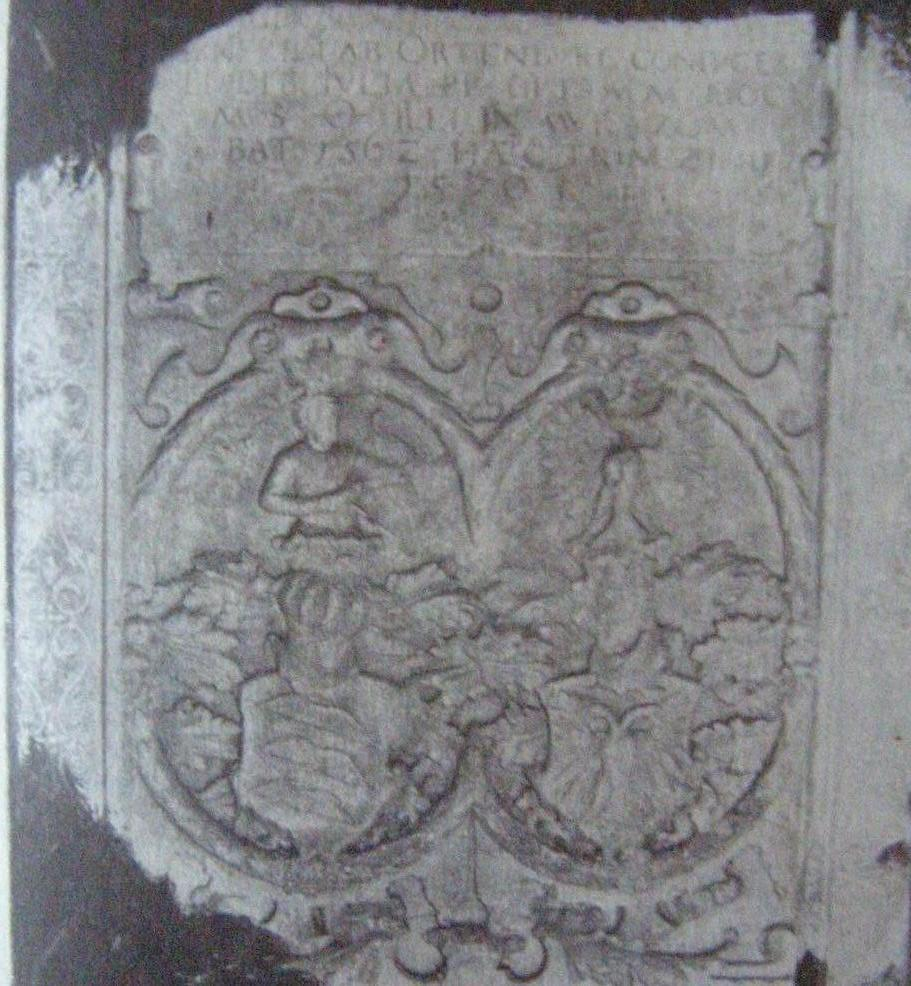 The Tombstone of graf Archo Pyrrhus († 1562) and his wife Margit Széchy († 1570) in Szentgotthárd